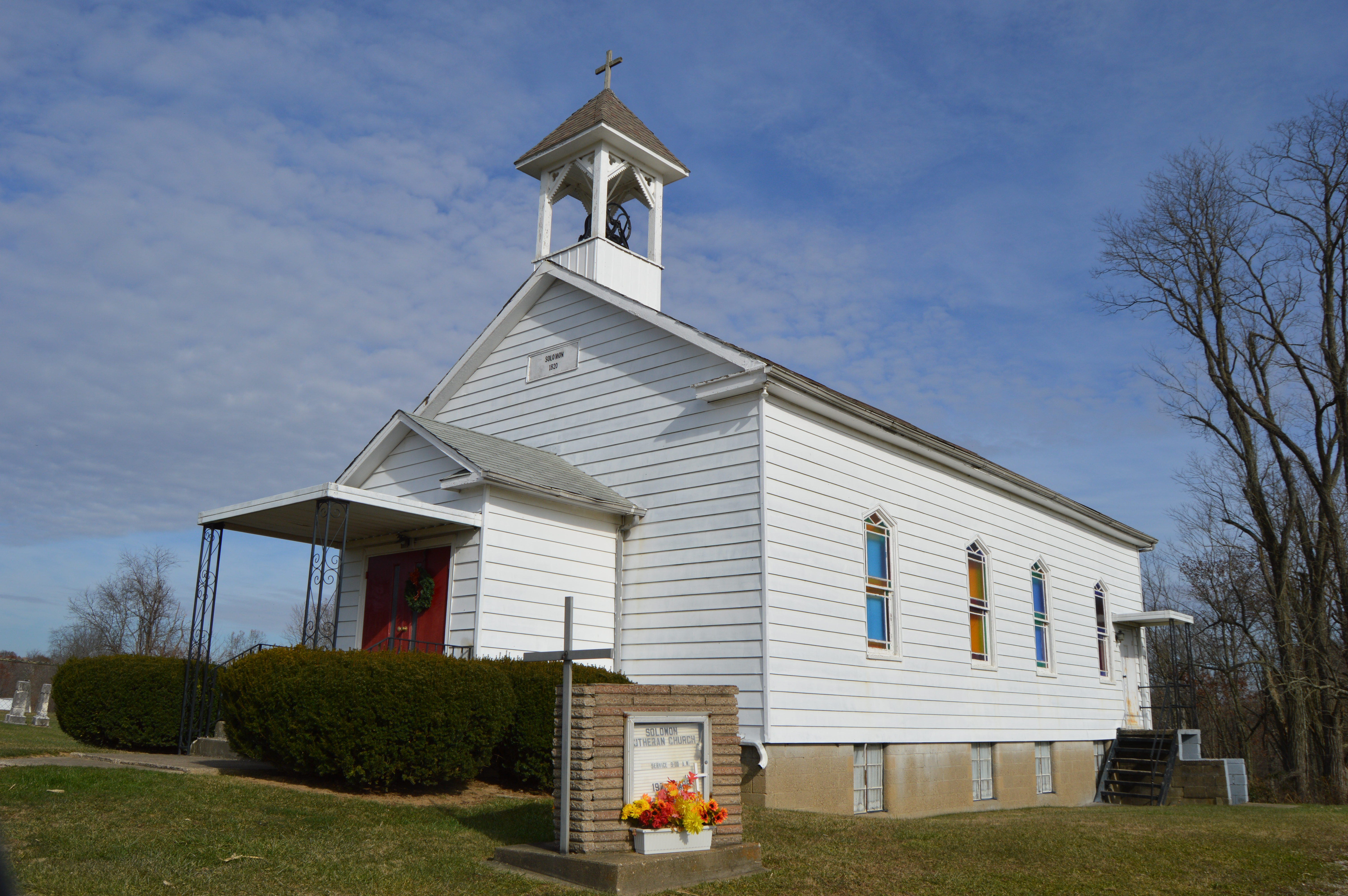 Front and southern side of Solomon Lutheran Church, located on State Route 669 west of Eagleport in far eastern York Township, Morgan County, Ohio, United States.